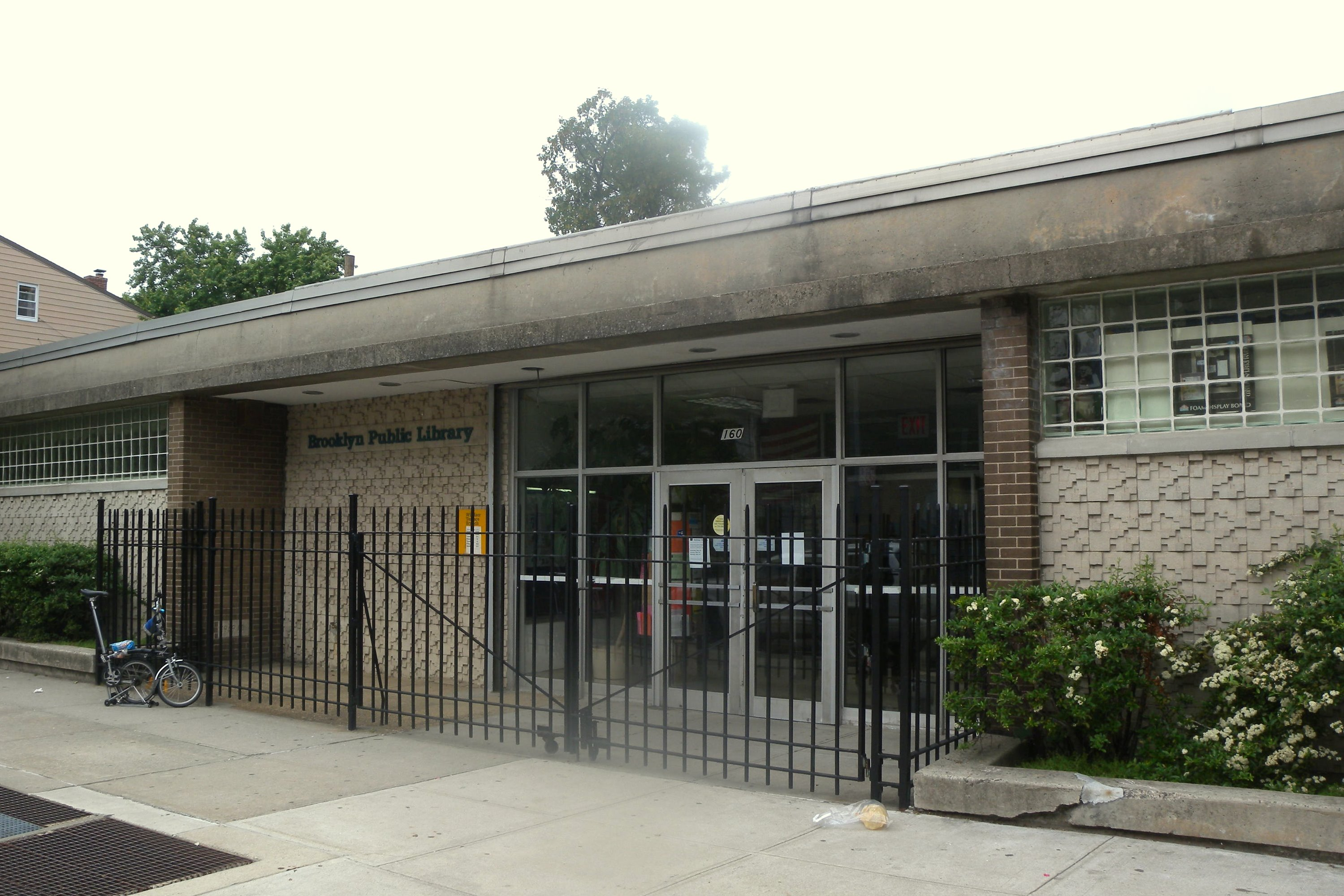 Looking southwest from East 5th at library on a cloudy day.